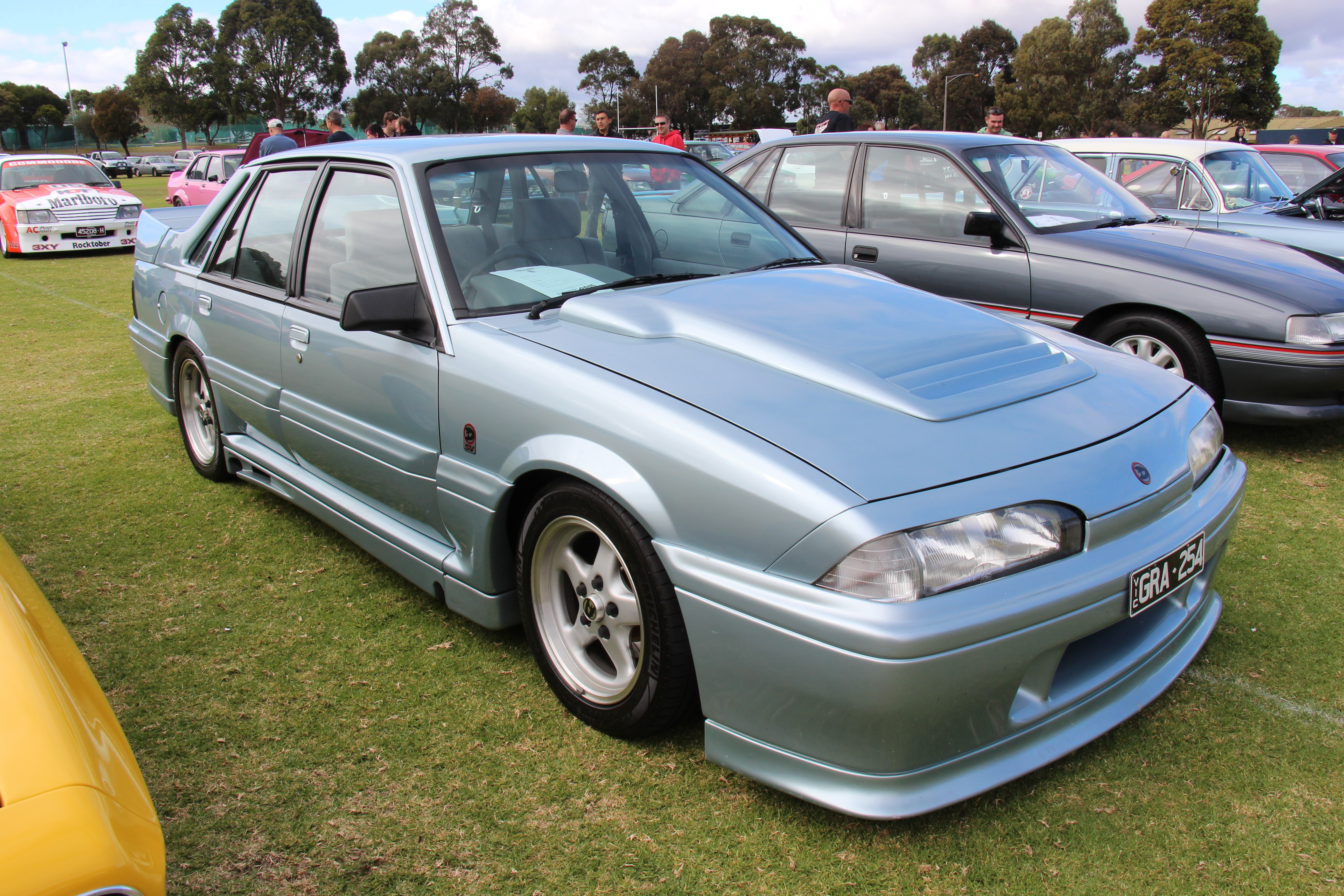 02/1988 Holden HSV Group A